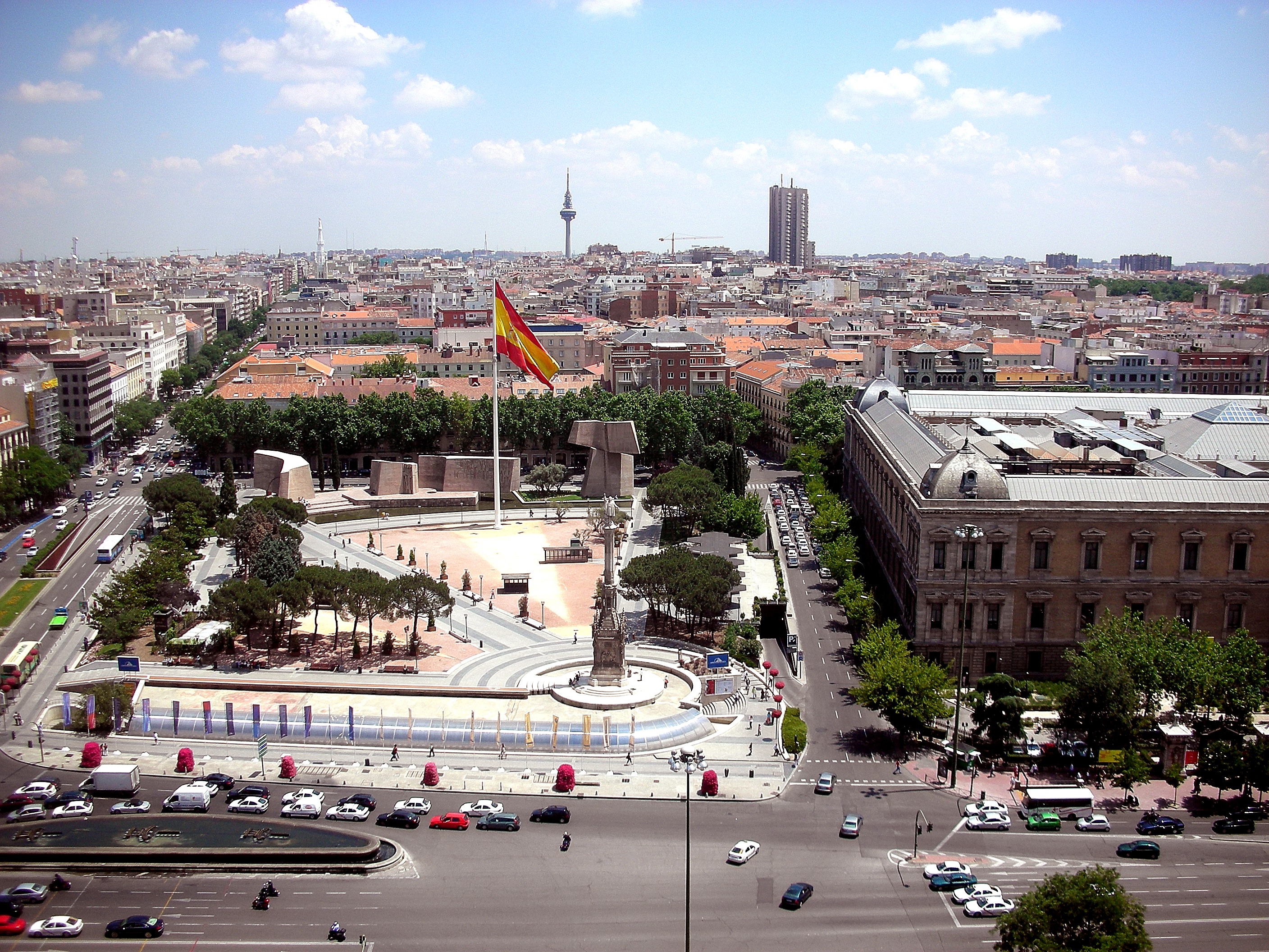 View of Jardines del Descubrimiento ("Gardens of Discovery") from a building at Plaza de Colón ("Columbus Square") in Madrid (Spain). At the right, the National Library.